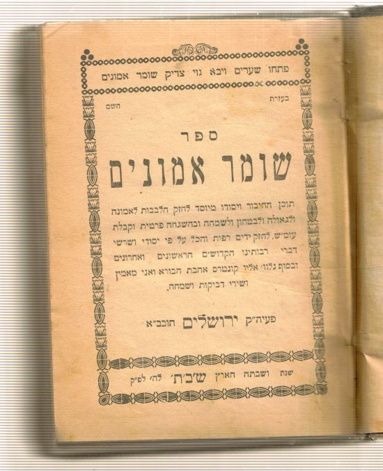 Shomer Emunim by Rabbi Aharon Ratte